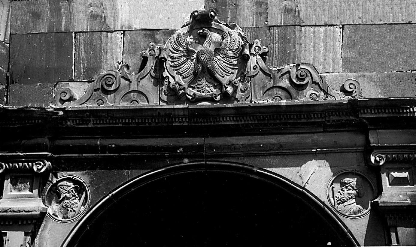 Heilbronn, Neue Kanzlei erbaut von Hans Kurz von 1593 bis 1596, Portal.JPG (file)